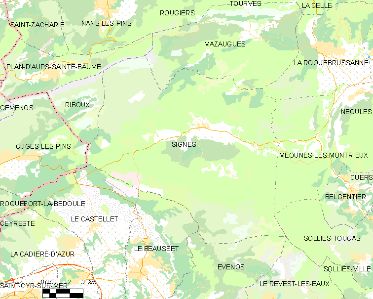 Map of French municipality Signes